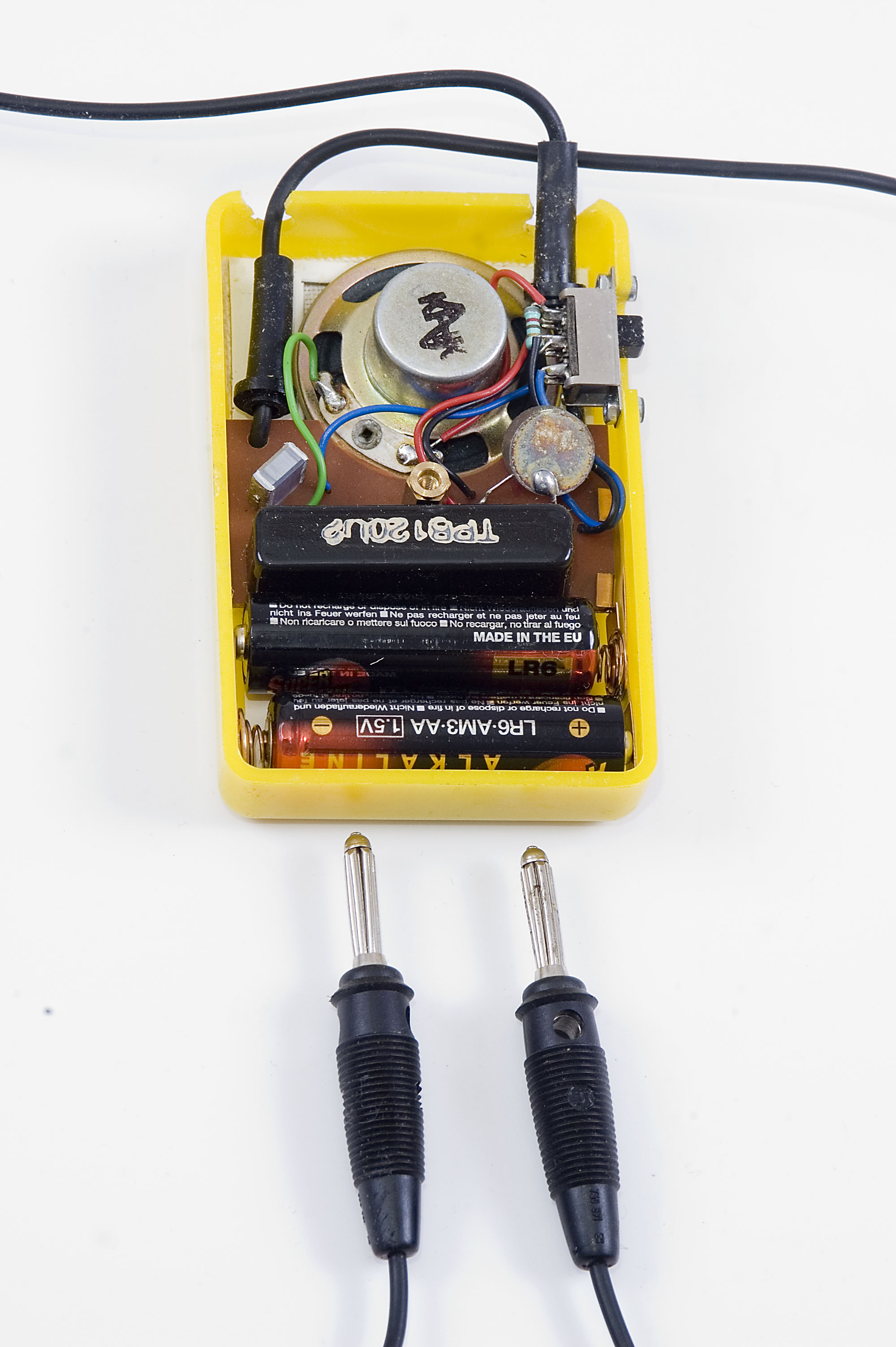 Continuity tester